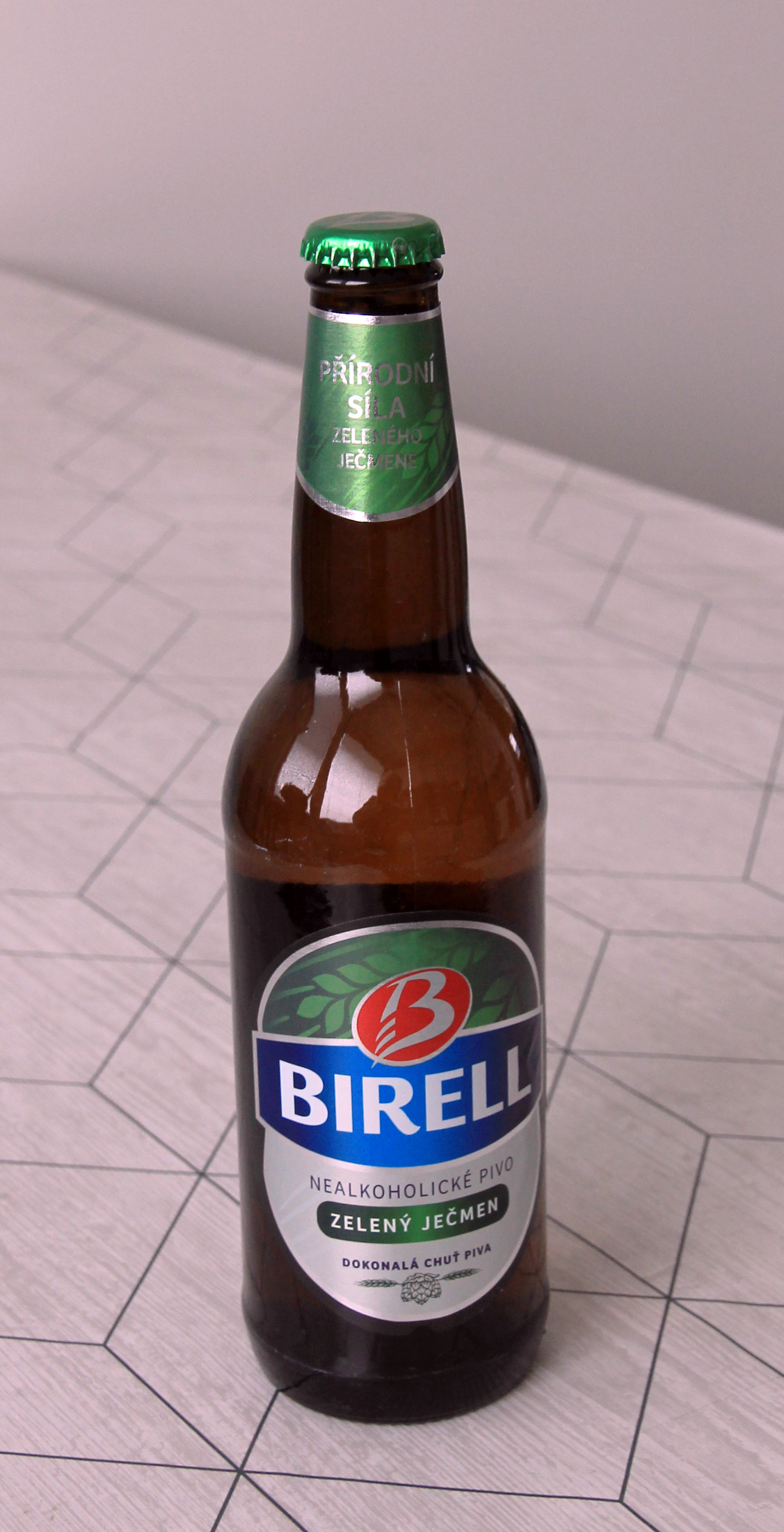 Bottle of Czech nonalcoholic beer Birell zelený ječmen (Birell green barley) from brewery Pivovar Radegast in small Moravian town Nošovice, Czech Republic